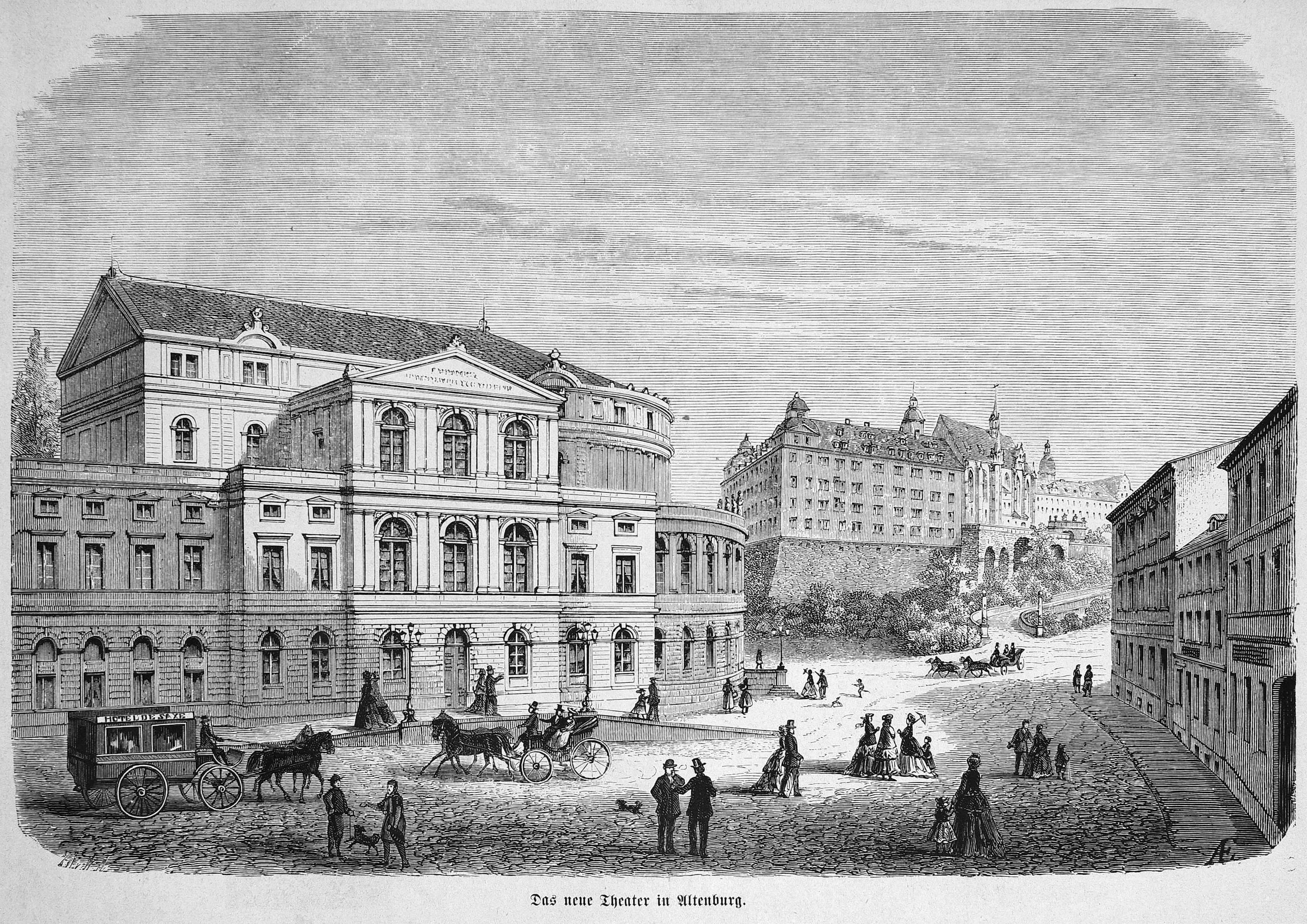 caption: "Das neue Theater in Altenburg."